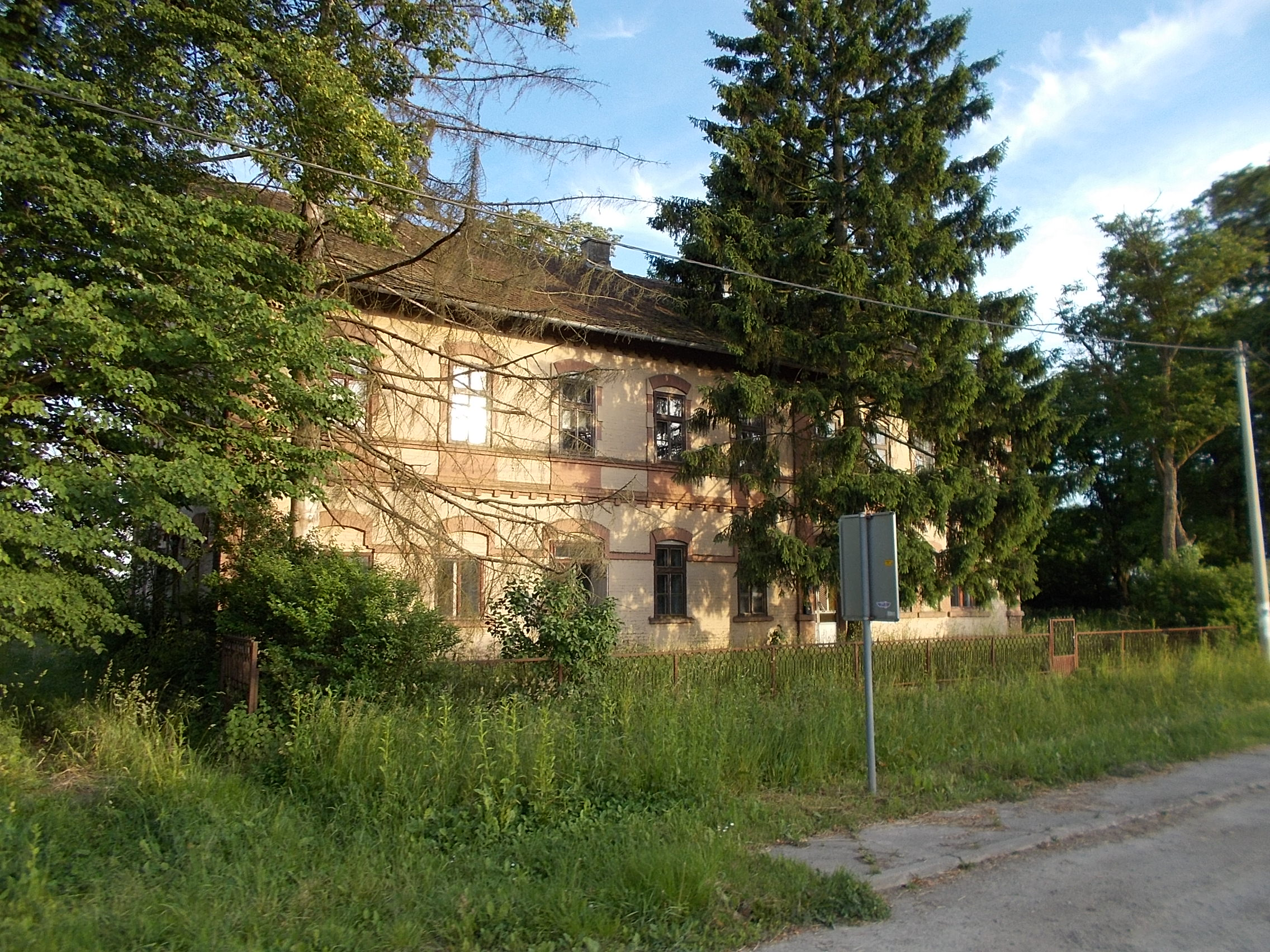 Village of Ivanovo (Gložđe), Viljevo Municipality.